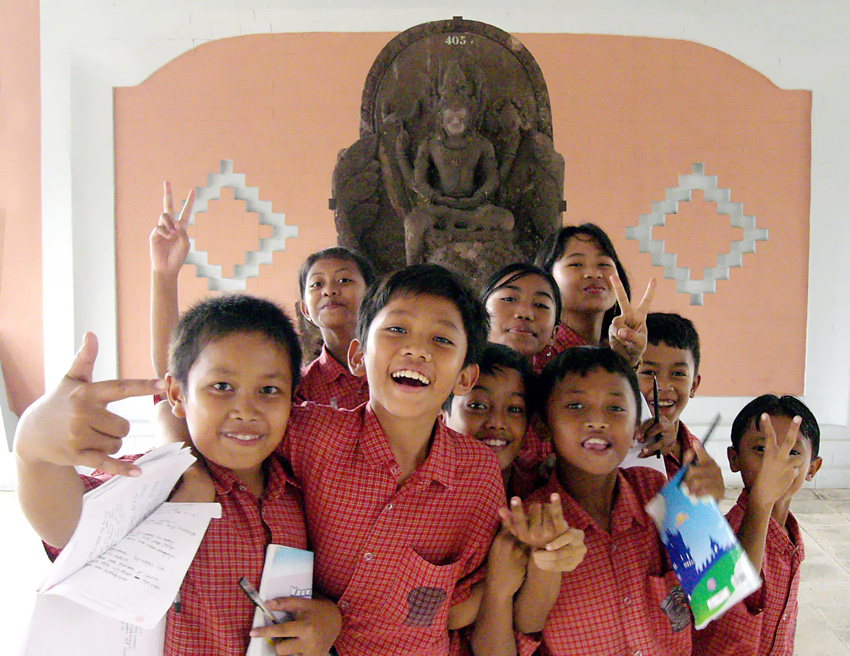 Indonesian elementary school students during their study tour to Trowulan Museum, East Java.